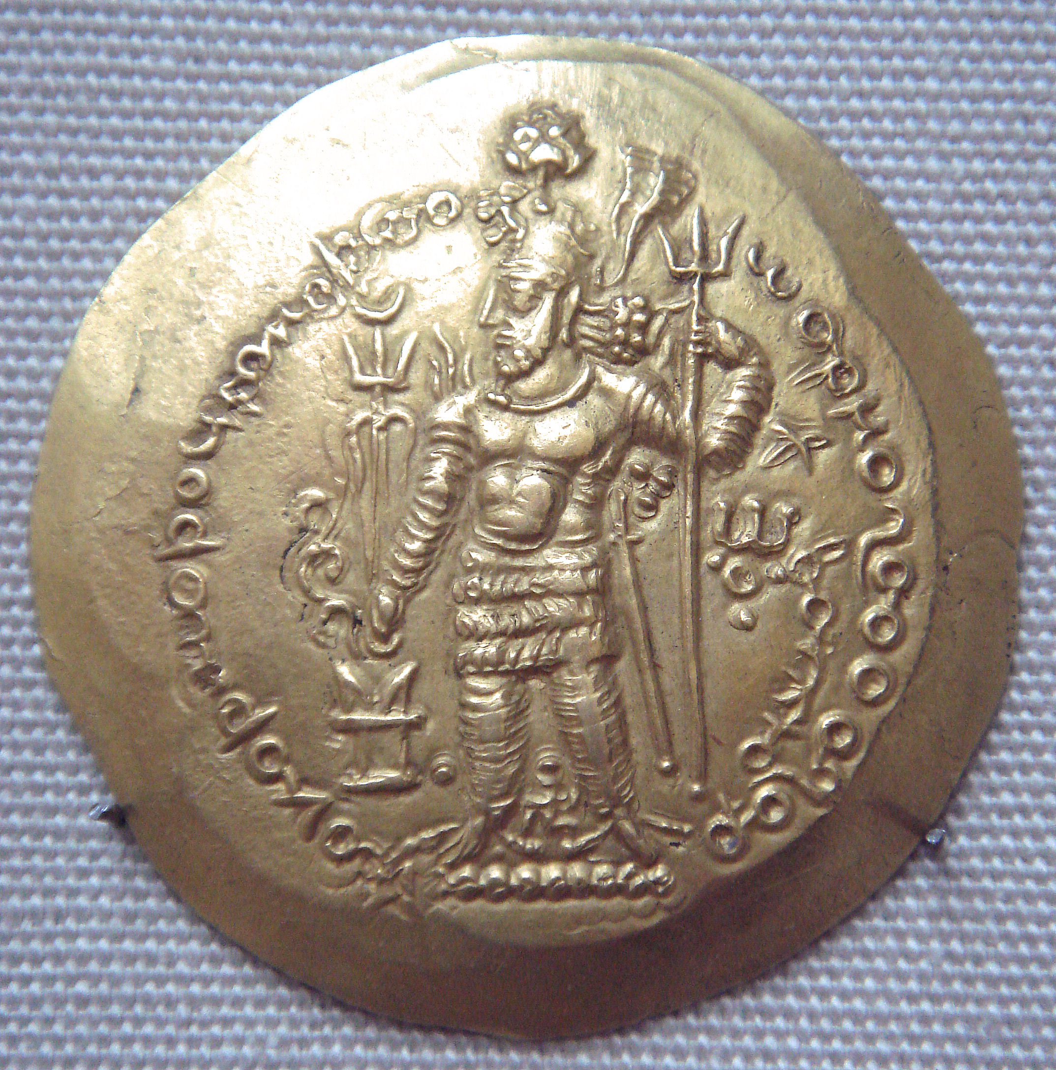 Hormizd I, Afghanistan issue copying Kushan designs.